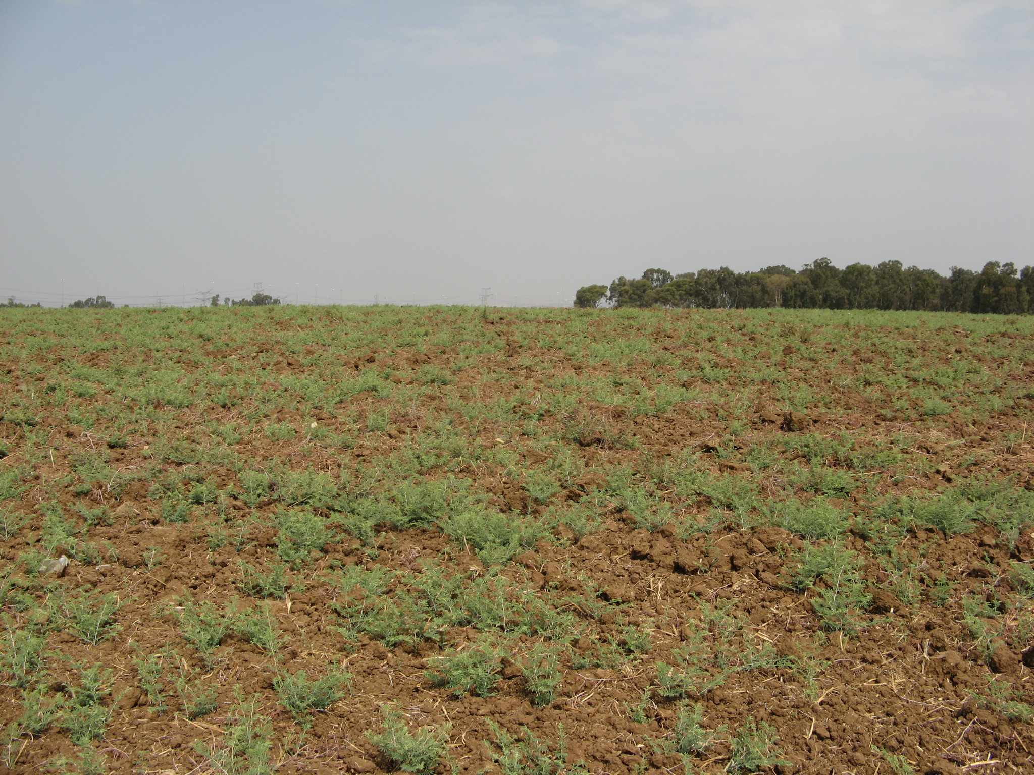 Field in Israel left Barren on shmita year. Near Rosh Haayin